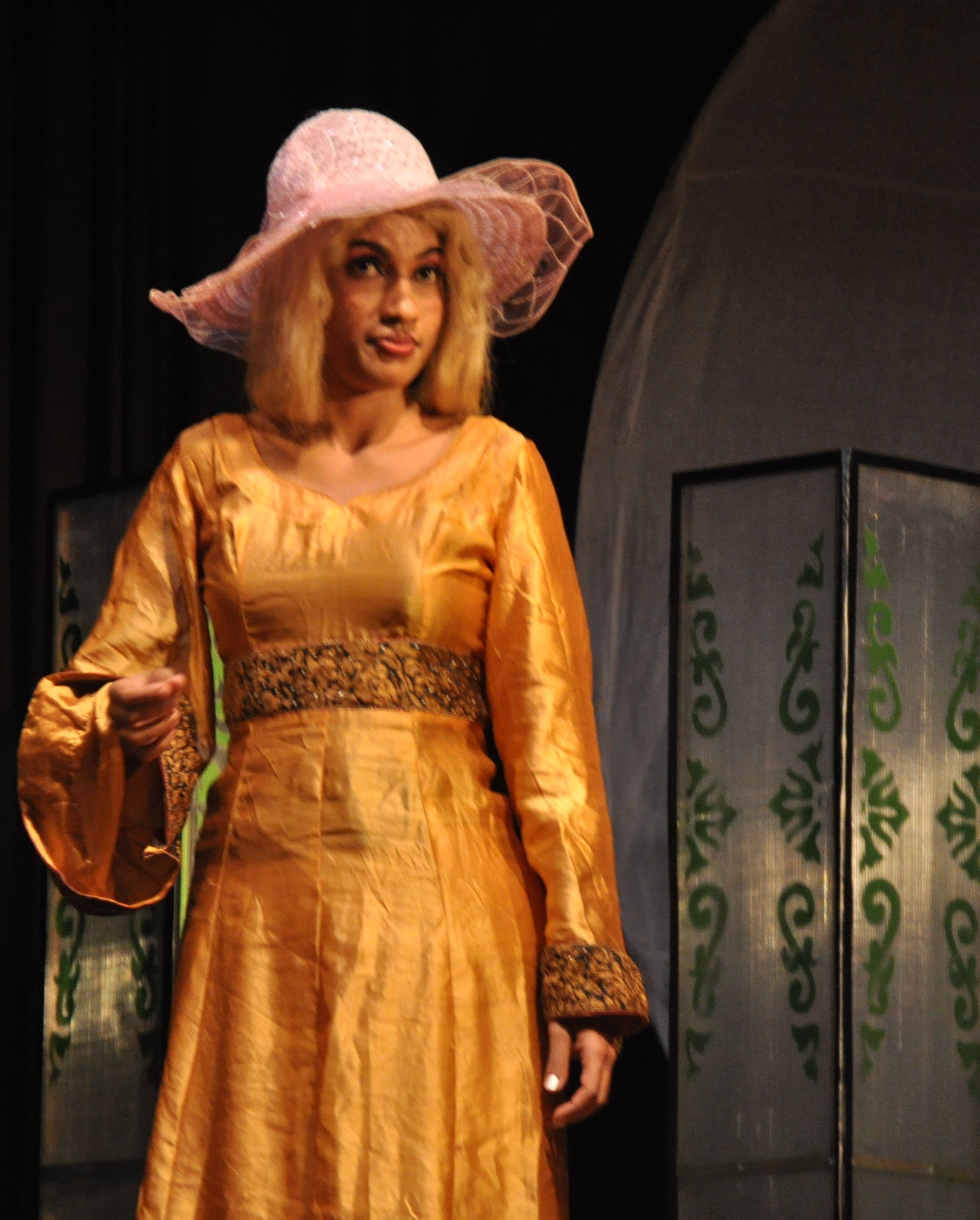 Manju Reji, malayalam drama actor